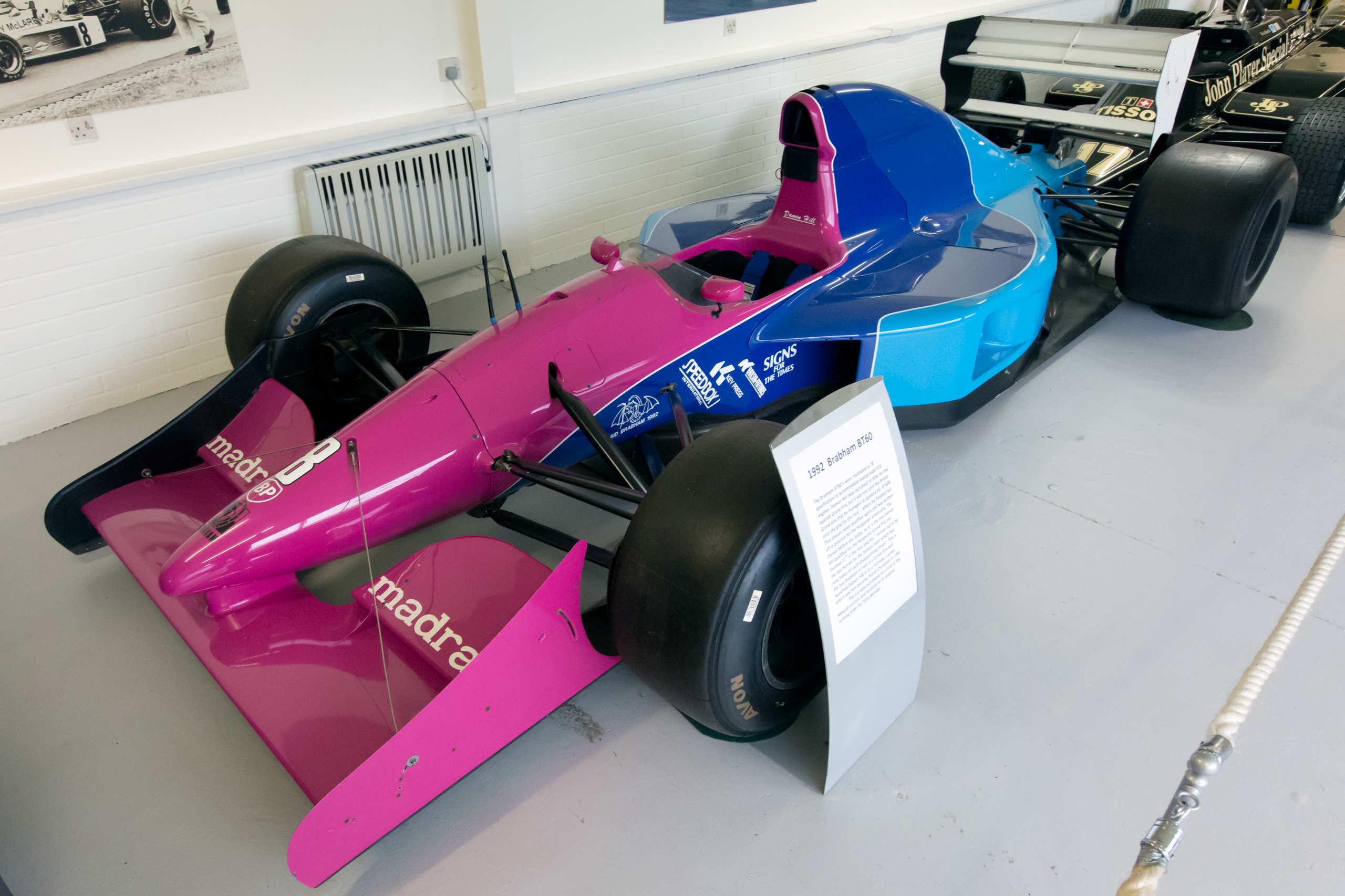 1992 Brabham BT60B (#8 Damon Hill)